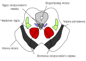 Transverse section through middle brain with localisation of featured anatomical structures (Ukrainian titles)